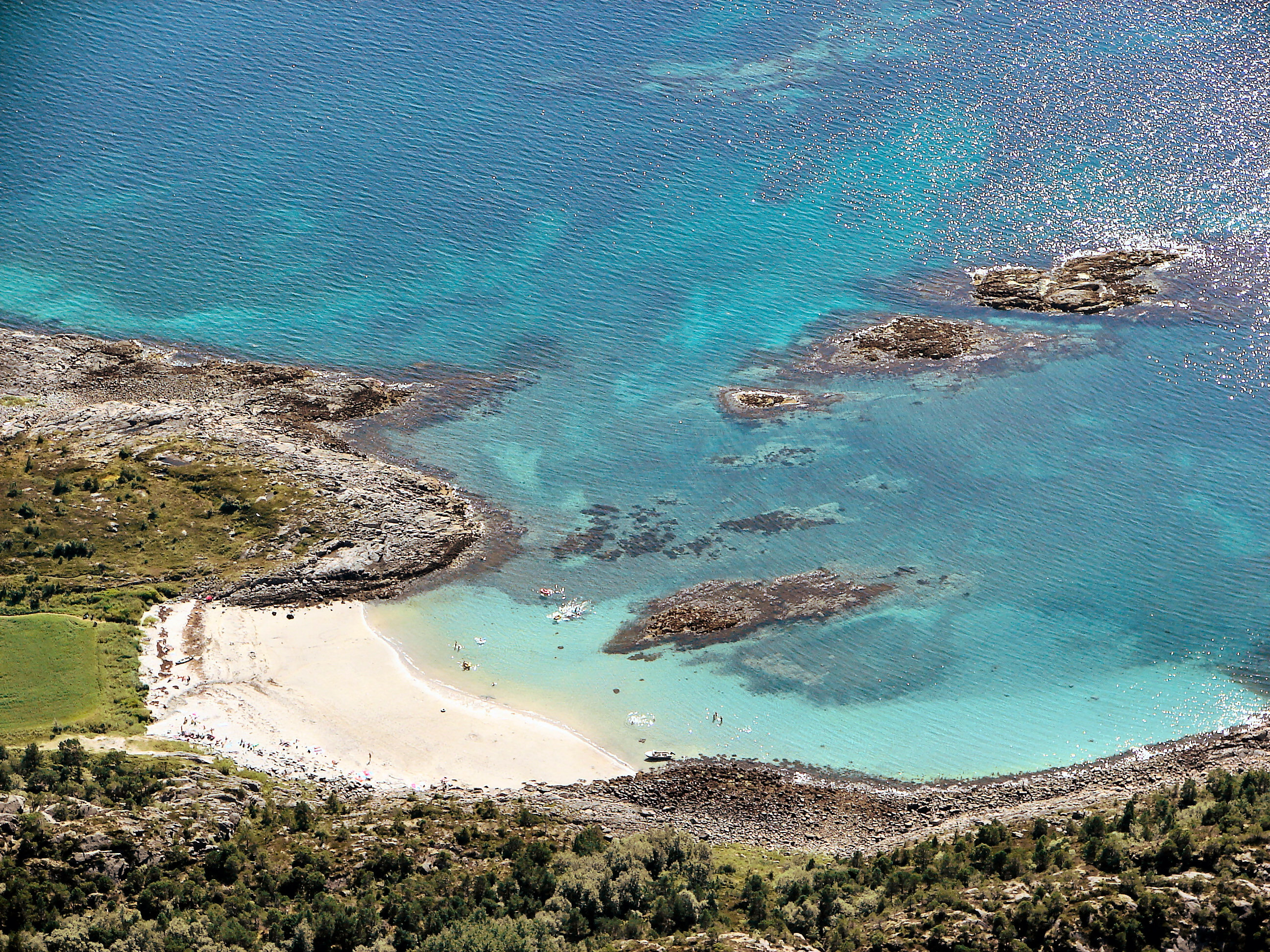 Eidem Beach on Vega island, Norway. Declared a World Heritage Site for bearing testimony to a frugal way of life bashed on fishing and harvesting of eider down in a harsh climate, on a summer day the area still offers excellent white beaches and crystal clear water.